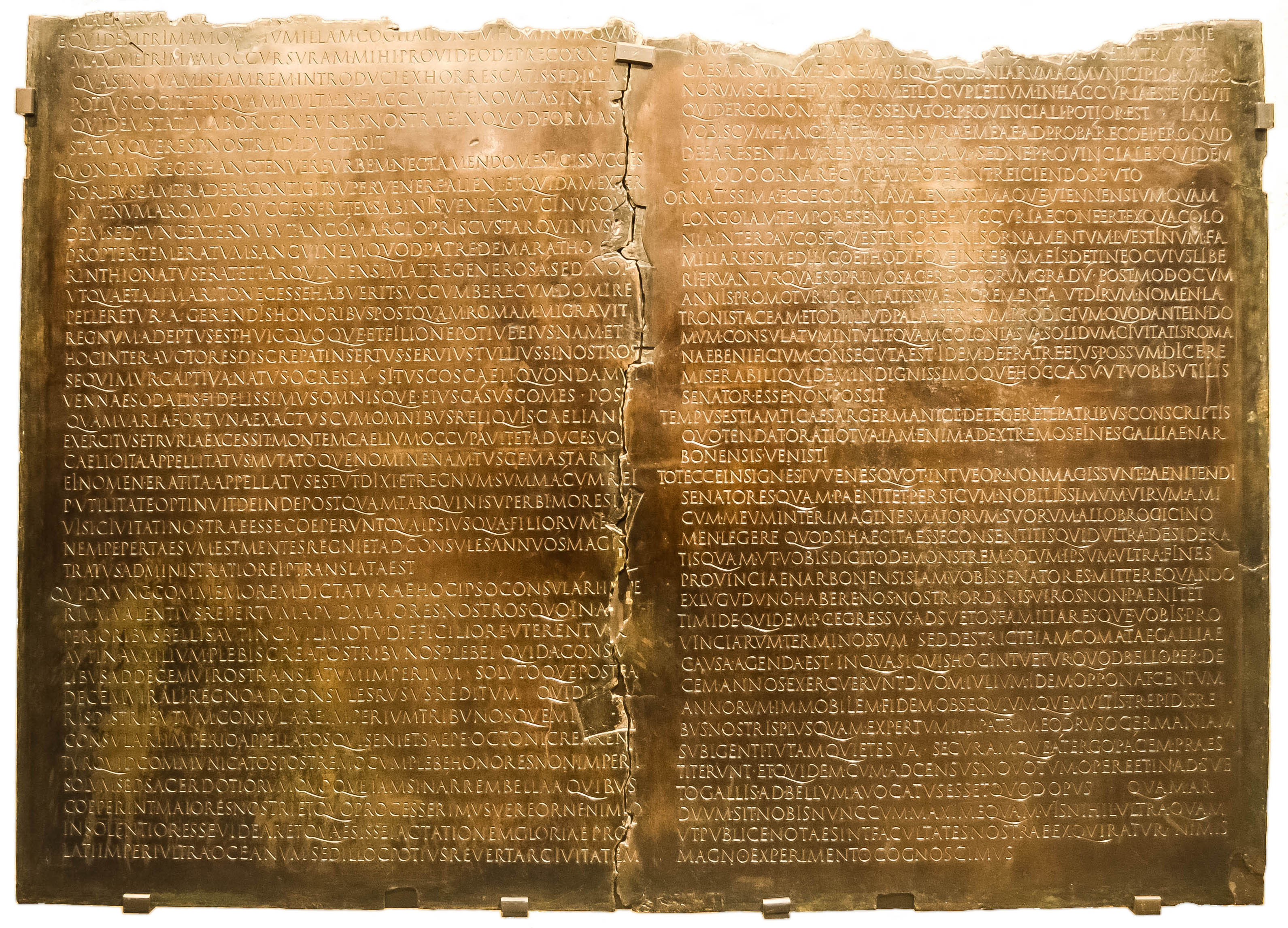 Claudian table, copy of the speech done by Claudius in roman Senat.